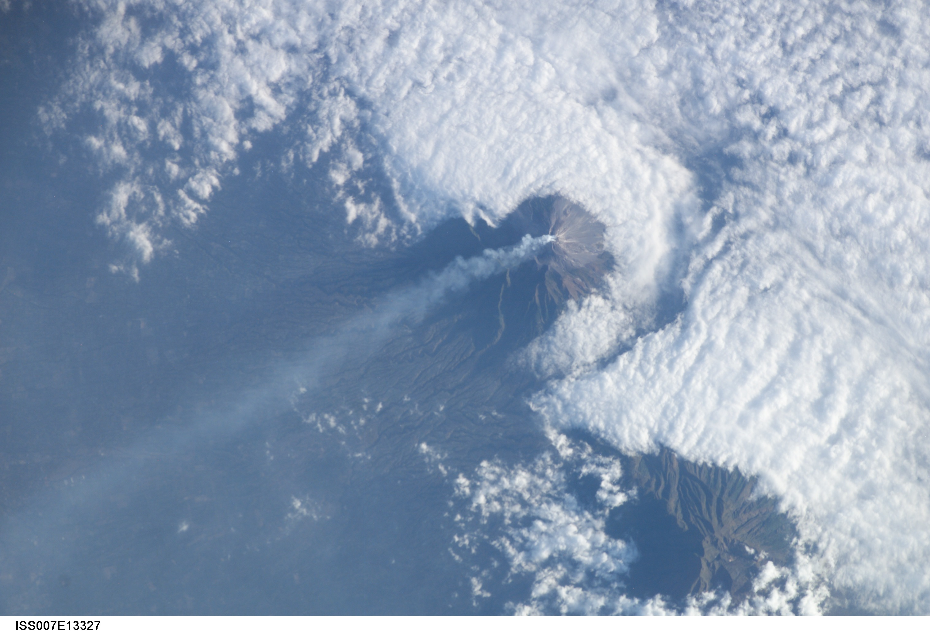 Mount Merapi in August 2003 showing steam venting from the crater.